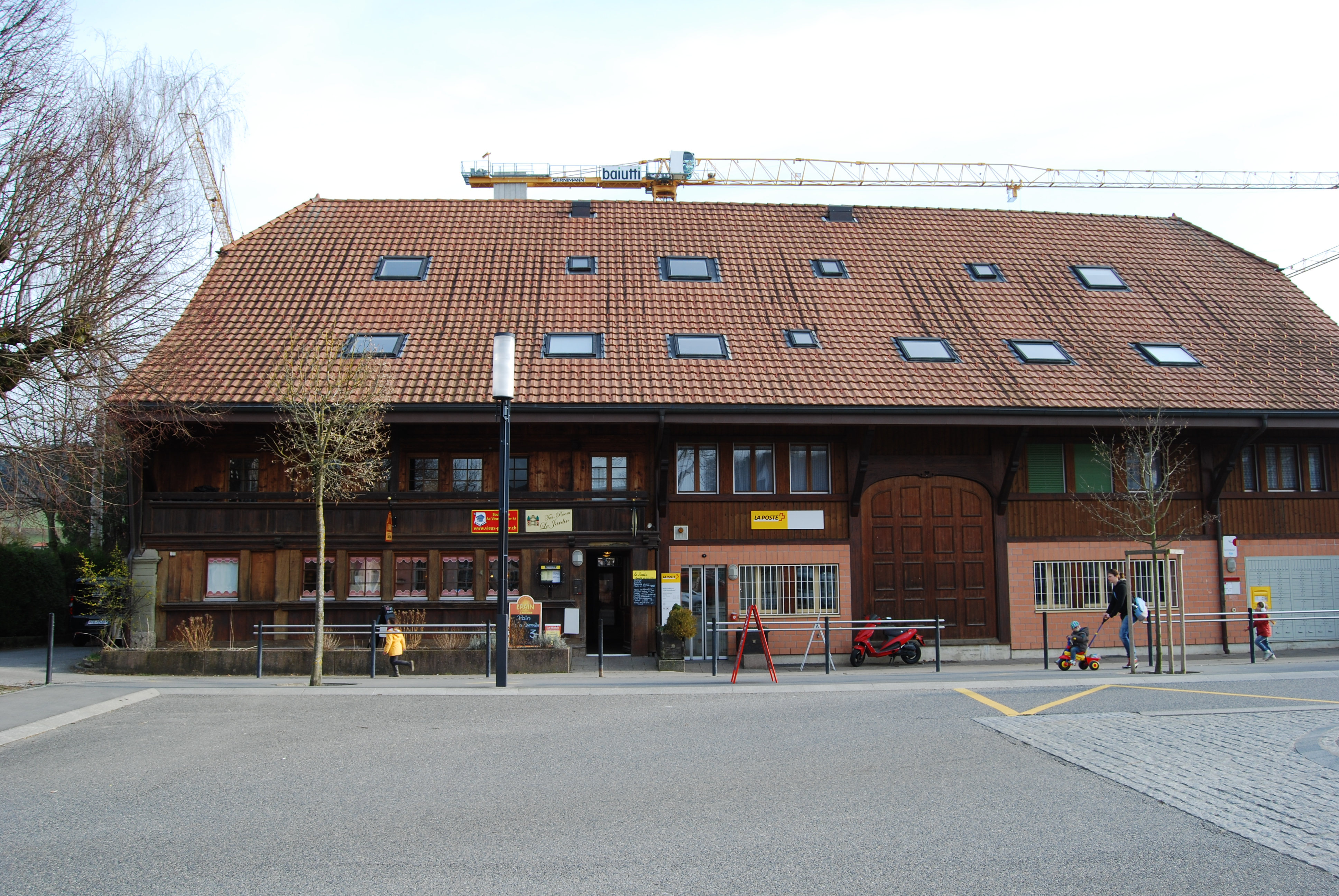 Corminboeuf, canton of Fribourg, SwitzerlandEsperanto: Corminboeuf, Kantono Friburgo, Svislando